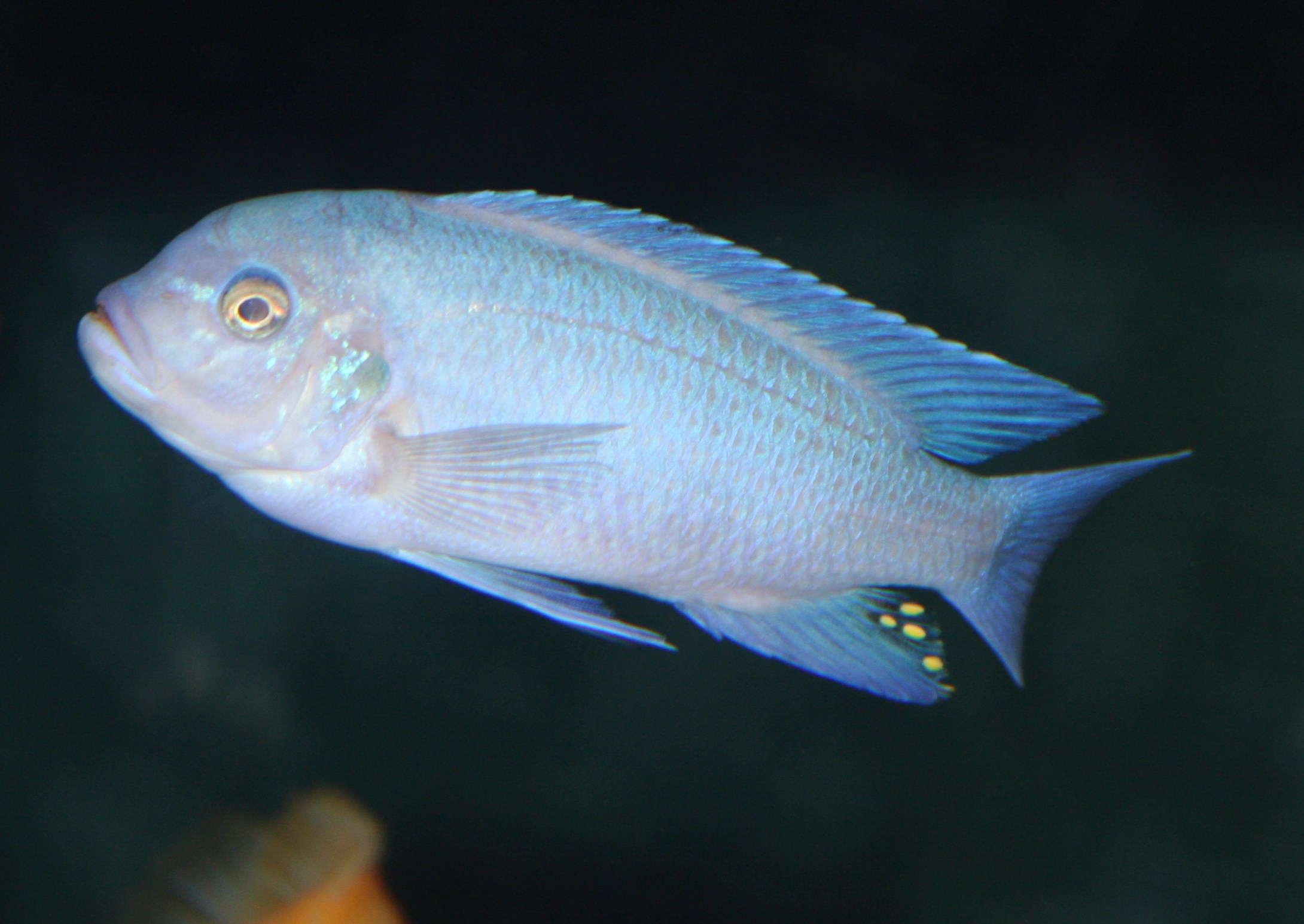 this is not Sciaenochromis fryeri, perhaps Maylandia callainos in Siam centre, Bangkok